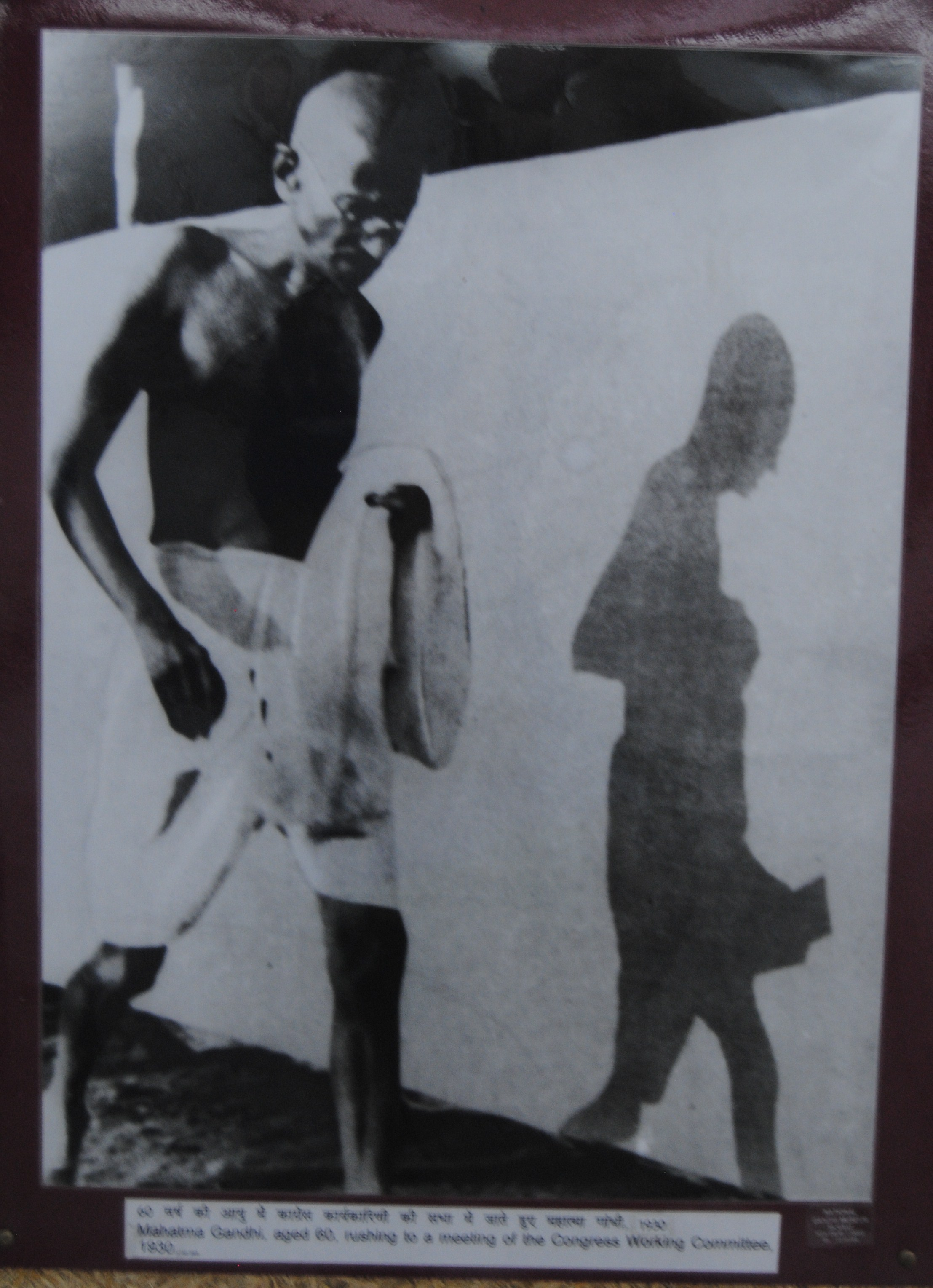 own picture taken with own camera at Gandhi Museum in Delhi.